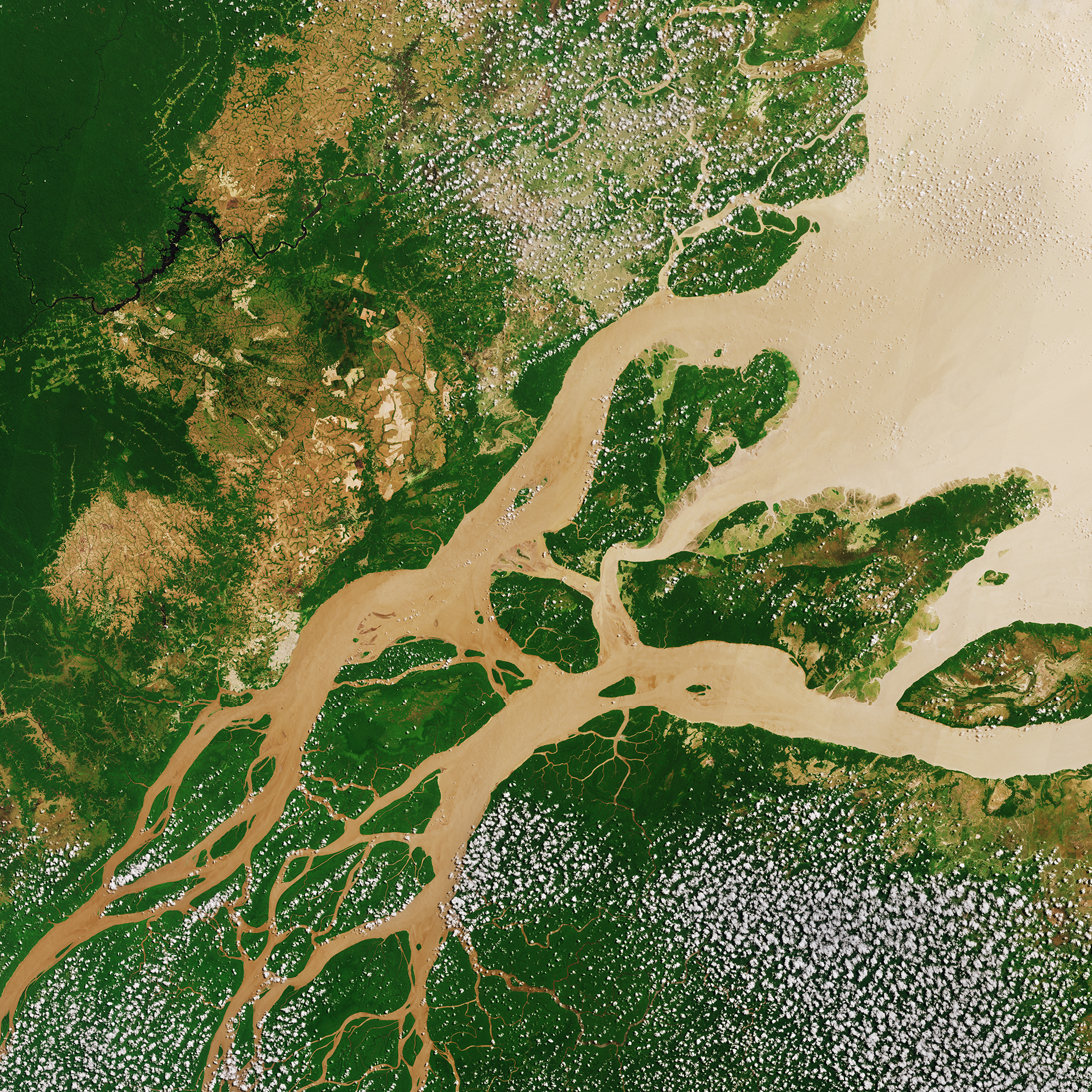 The Copernicus Sentinel-2A satellite takes us over northern Brazil on 22 August 2017, where the Amazon River meets the Atlantic Ocean (Amazon Delta). Click on the "media-viewer button" (and +) to view this image at its full 10 m resolution directly in your browser. The sediment-laden water appears brown as it flows from the lower left to the open ocean in the upper right. ‘Popcorn’ clouds (Cumulus humilis clouds) are visible in parts of the image – a common occurrence during the Amazon’s dry season, formed by condensed water vapour released by plants and trees during the sunny day. The land varies in colour from the deep green of dense vegetation to light brown. Taking a closer look to the upper-left section of the image, we can see large brown areas where the vegetation has already been cleared away. Geometric shapes indicate agricultural fields, and linear roads cut through the remaining dense vegetation. Rainforests worldwide are being destroyed at an alarming rate. This is of great concern because they play an important role in global climate, and are home to a wide variety of plants, animals and insects. More than a third of all species in the world live in the Amazon Rainforest. Unlike other forests, rainforests have difficulty regrowing after they are destroyed and, owing to their composition, their soils are not suitable for long-term agricultural use. With their unique view from space, Earth observation satellites have been instrumental in highlighting the vulnerability of the rainforests by documenting the scale of deforestation. This image is featured on theEarth from Space video programme.